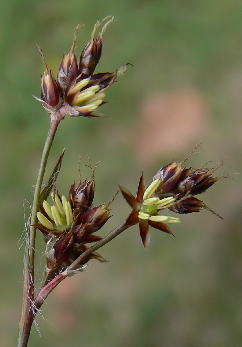 Luzula campestris, field woodrush, Feld-Hainsimse, Leonberg, Germany